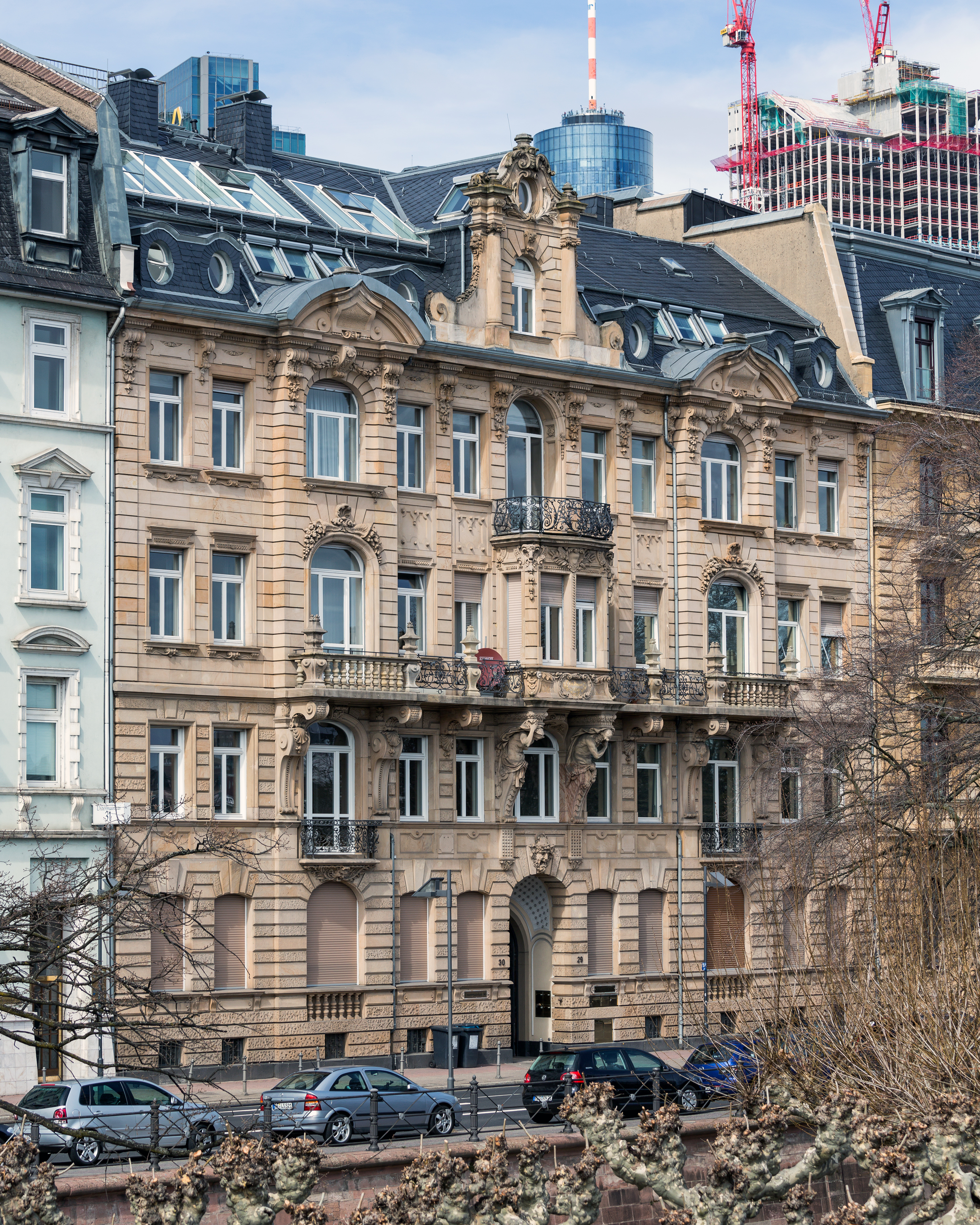 Frankfurt on the Main: Untermainkai (Lower Main Quay) 29/30 as seen from the southwest